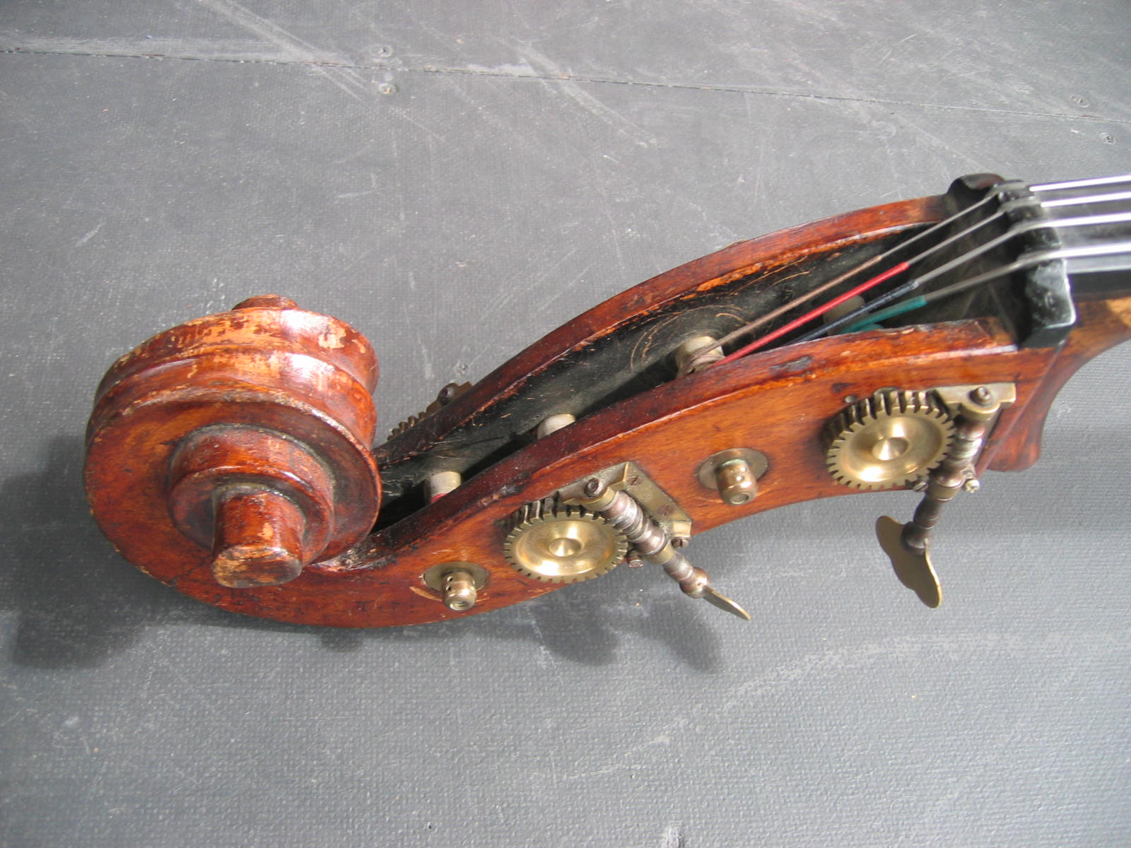 Double bass pegbox